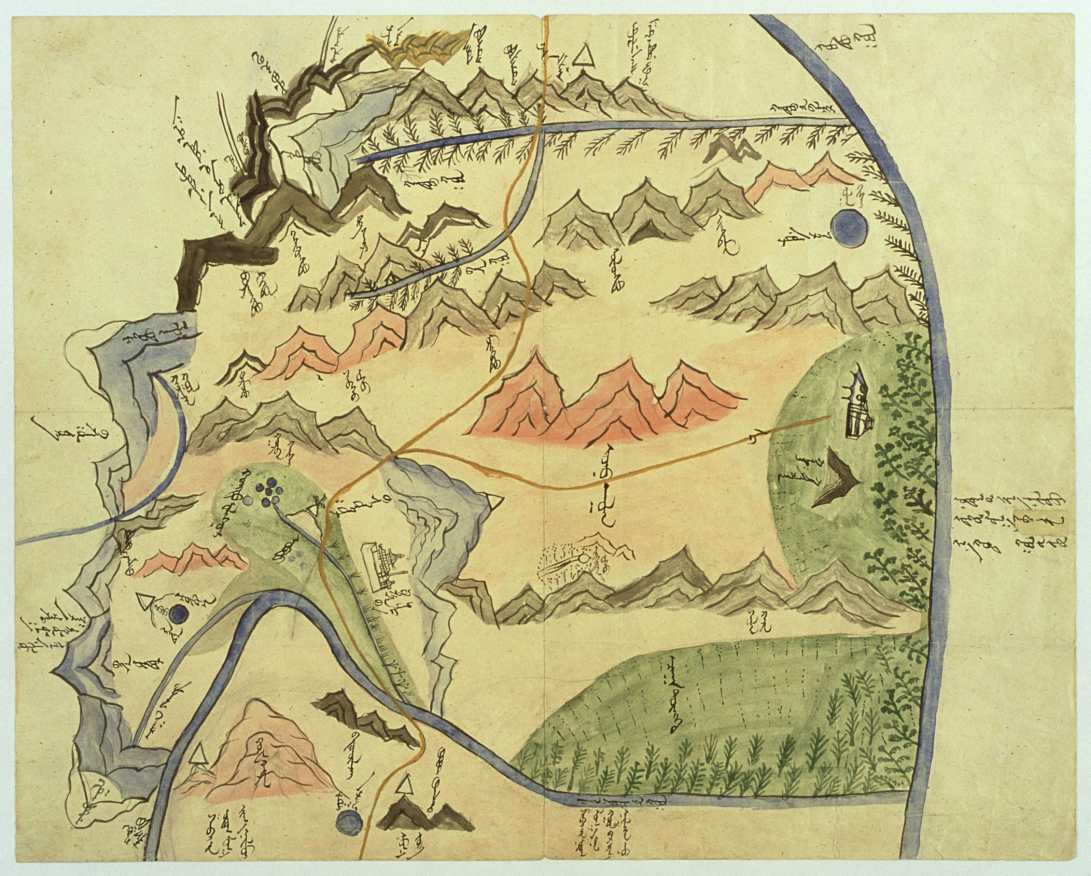 Map of the Jütgelt Gün's hoshuu (banner) of the Altai Urianhai in western Mongolia. Material is Chinese paper, original size is 36x45 cm. See also Kamimura's article, p. 10.